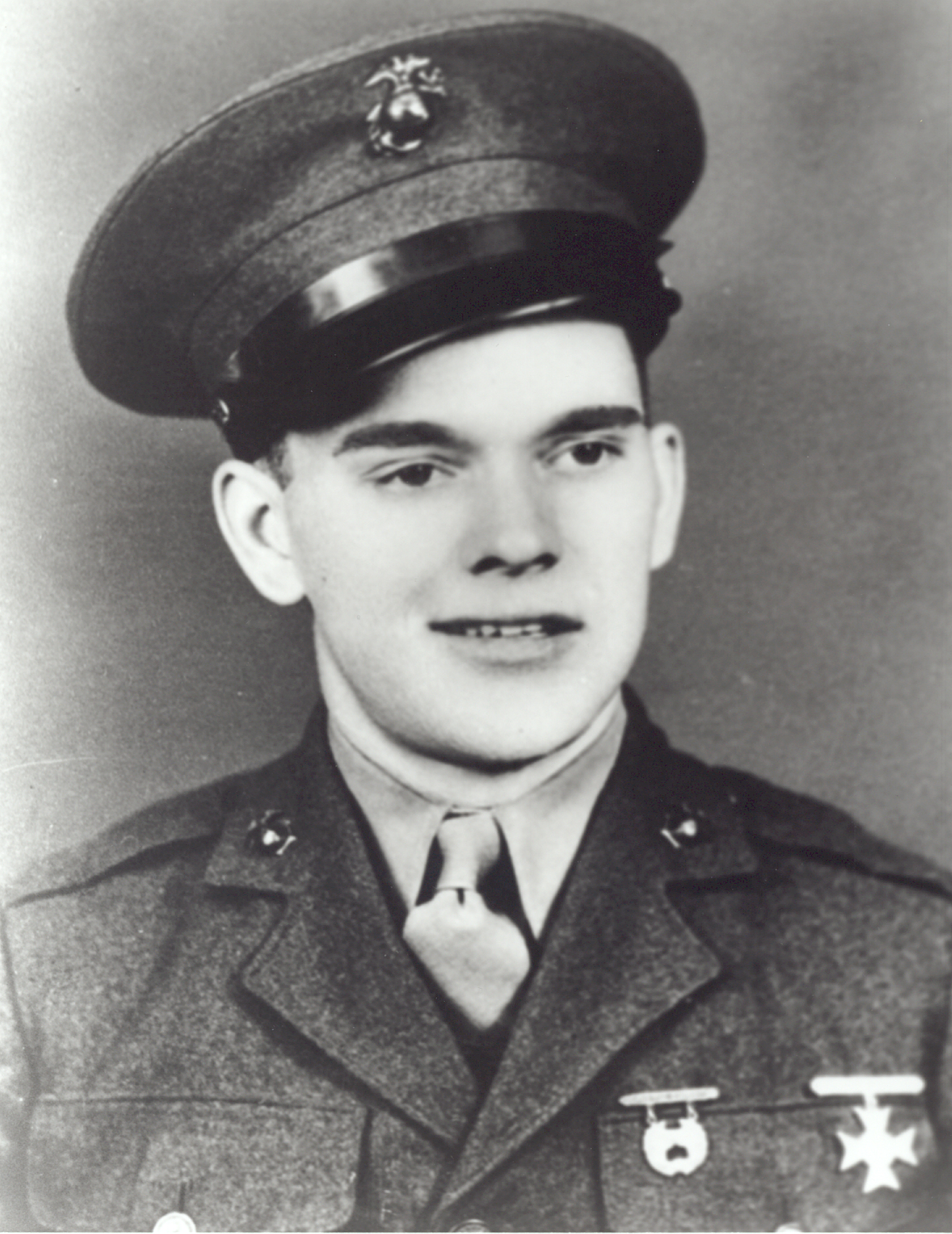 Leonard F. Mason (22 February 1920 - 23 July 1944), Medal of Honor recipient for heroic actions during World War II. died of wounds suffered during the Battle of Guam.